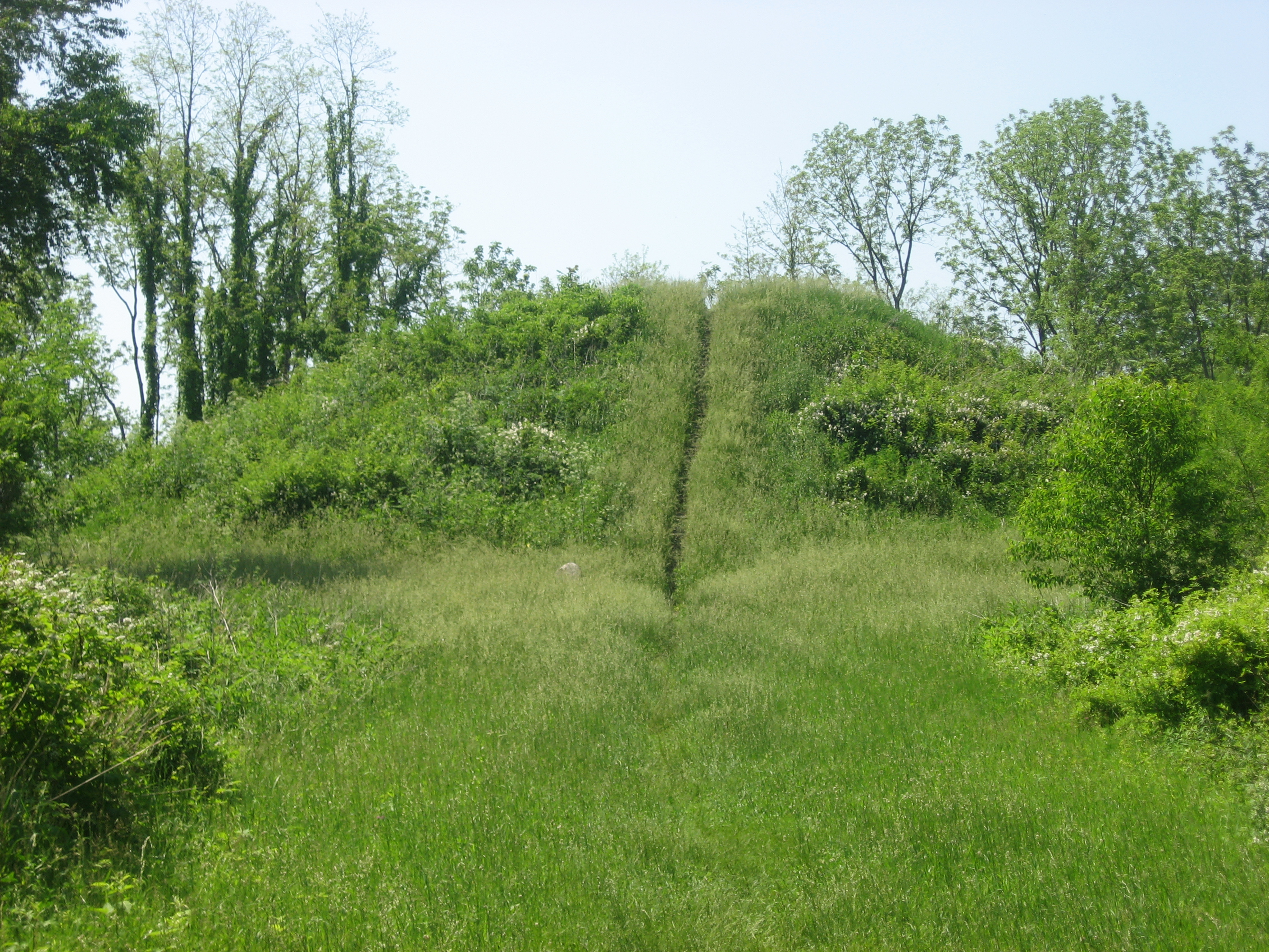 Southern side of the Williamson Mound, located in Indian Mound Reserve off U.S. Route 42 west of Cedarville in Cedarville Township, Greene County, Ohio, United States. Built by the Adena culture, the mound is listed on the National Register of Historic Places.